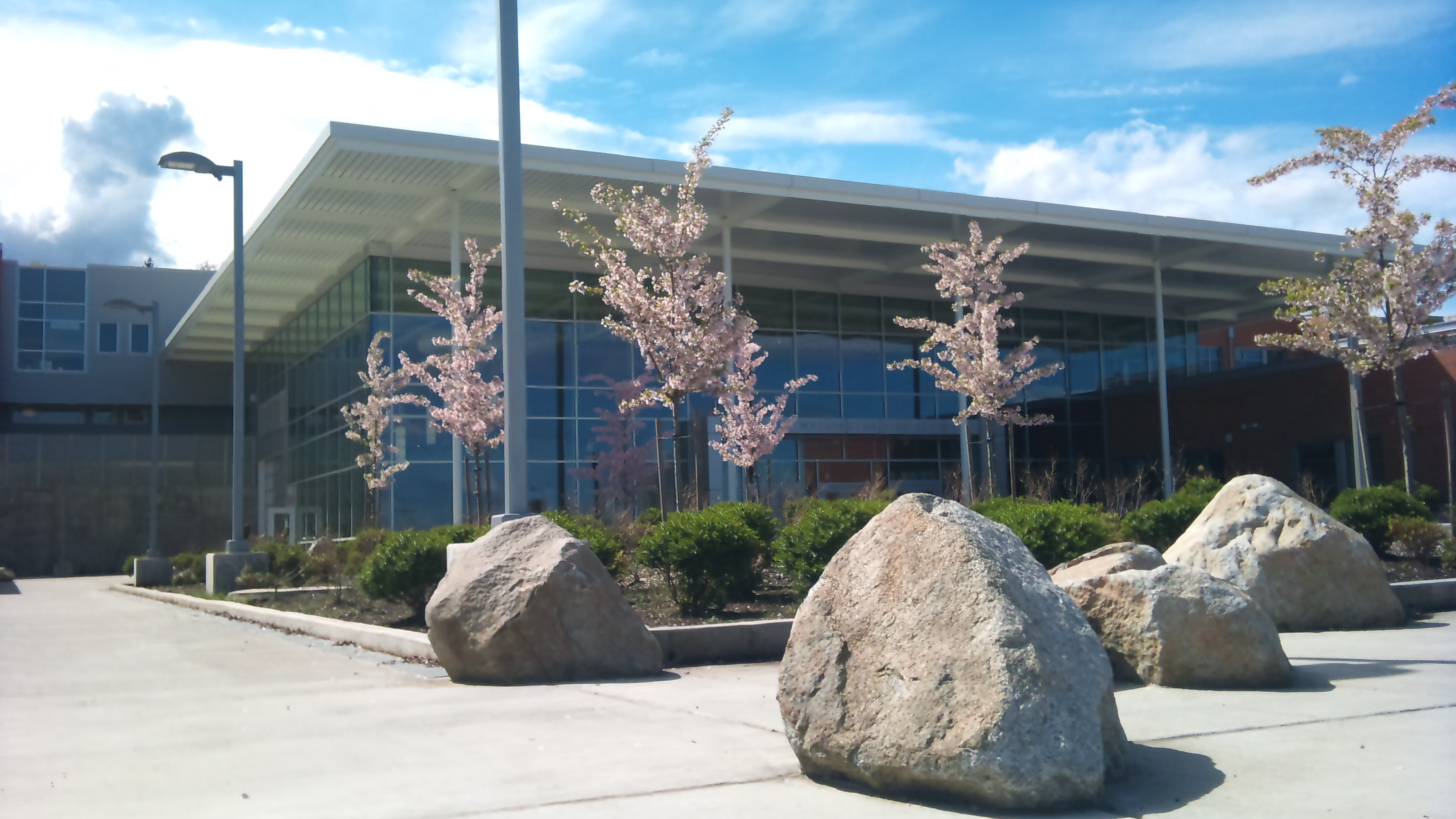 Lake Washington High School, April 12, 2012. The trees in full bloom.